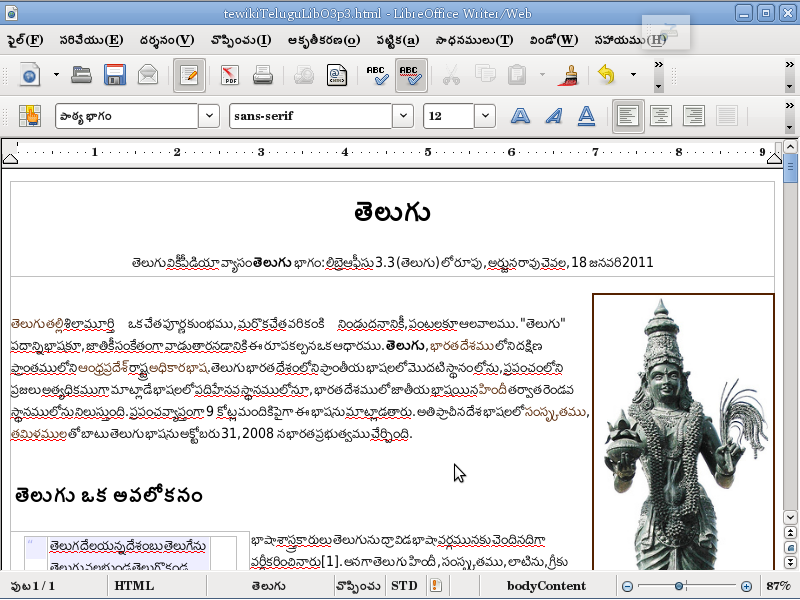 Screenshot of Telugu HTML document in Libreoffice